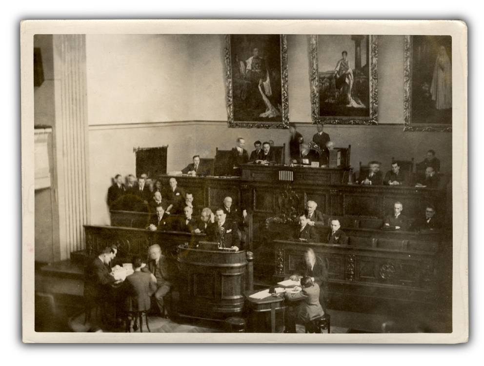 Milan Stojadinovic delivers his speech in the National Assembly, Belgrade 1936.Catalog number: Lz NS, B-IV-111